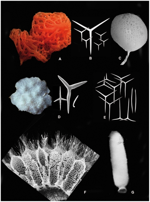 A. Clathrina rubra (Calcinea, Clathrinida), NW Mediterranean Sea (photo courtesy Jean Vacelet); B. Calcinean spicules: equiangular and equiradiate triactines (photo courtesy Jean Vacelet); C. Guancha lacunosa (Calcinea, Clathrinida), NW Mediterranean Sea; D. Petrobiona massiliana (Calcaronea, Lithonida), two specimens from caves, NW Mediterranean Sea. Spicule complement of P. massiliana: from left to right pugiole, sagittal triactines, microdiactine (photos courtesy Jean Vacelet); E. Calcaronean spicules: sagittal (inequiangular) triactines and diactines; F. Syconoid aquiferous system from Sycon ciliatum (SEM photo, courtesy Louis De Vos, ULB); G. Sycon ciliatum (Calcaronea, Leucosolenida), specimen about 10 cm, from the English Channel.